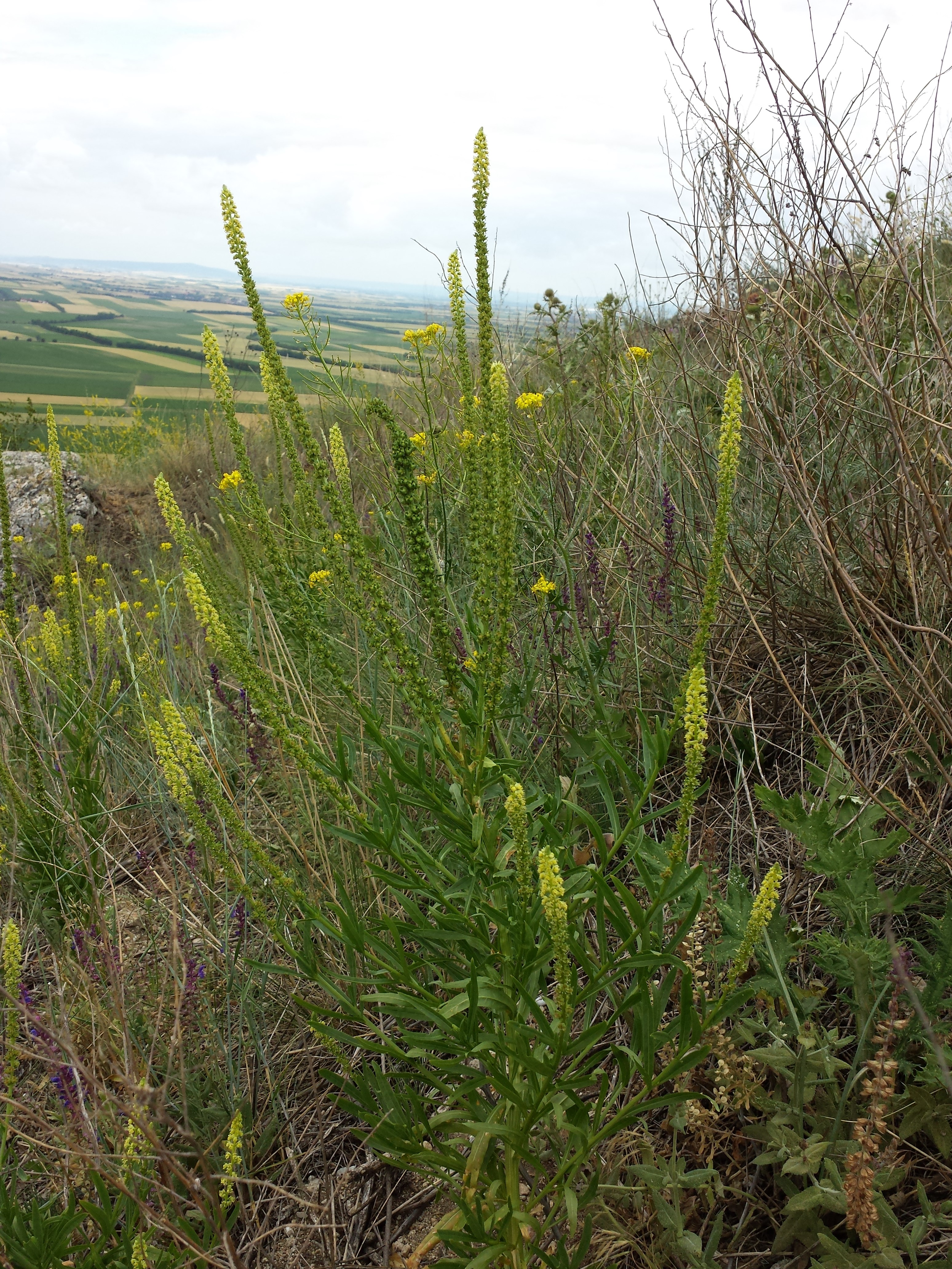 Habitus Taxon: Reseda luteola (sensu Fischer et al. EfÖLS 2008 ISBN 978-3-85474-187-9; det. W. Adler 2014-06-21) Location: Staatzer Klippe, district Mistelbach, Lower Austria - ca. 300 m a.s.l. Habitat: steppe over limestone This media shows the natural monument in Lower Austria with the ID MI-052.